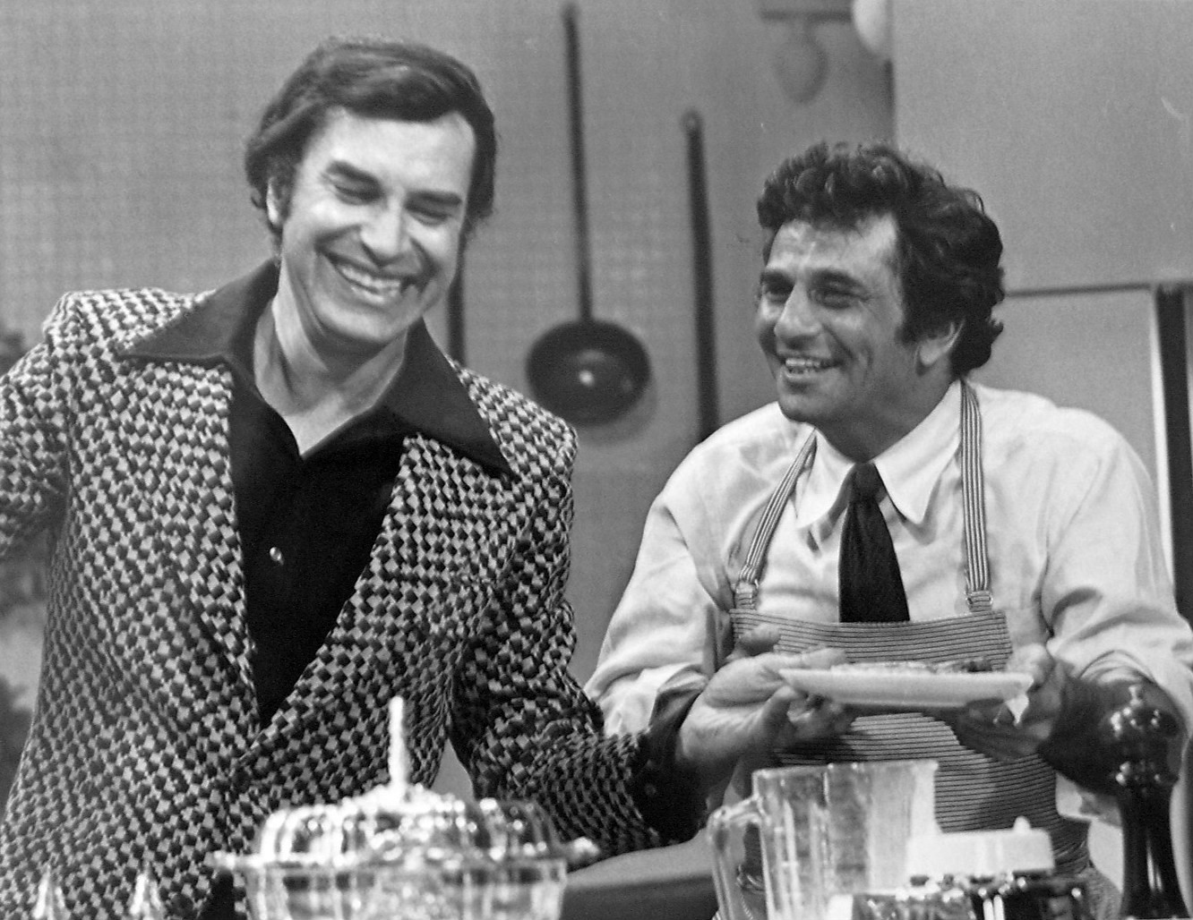 Photo of Martin Landau and Peter Falk from the television series Colombo. The episode is "Double Shock"; Landau played a dual role as twin brothers while Falk was his usual Lieutenant Colombo.